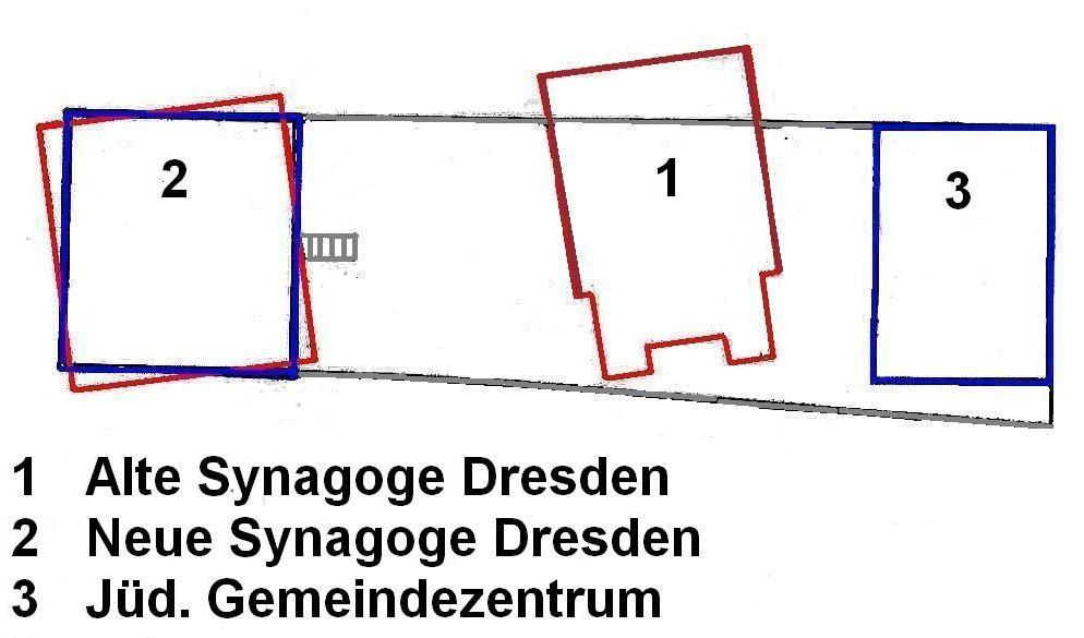 eigene Illustration nach verschiedenem Kartenmaterial, zumeist nach Architekturführer 2004